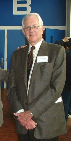 Sheldon Glashow at Harvard